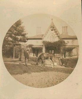 Frederick Remington on his estate 'Endion' in New Rochelle, New York